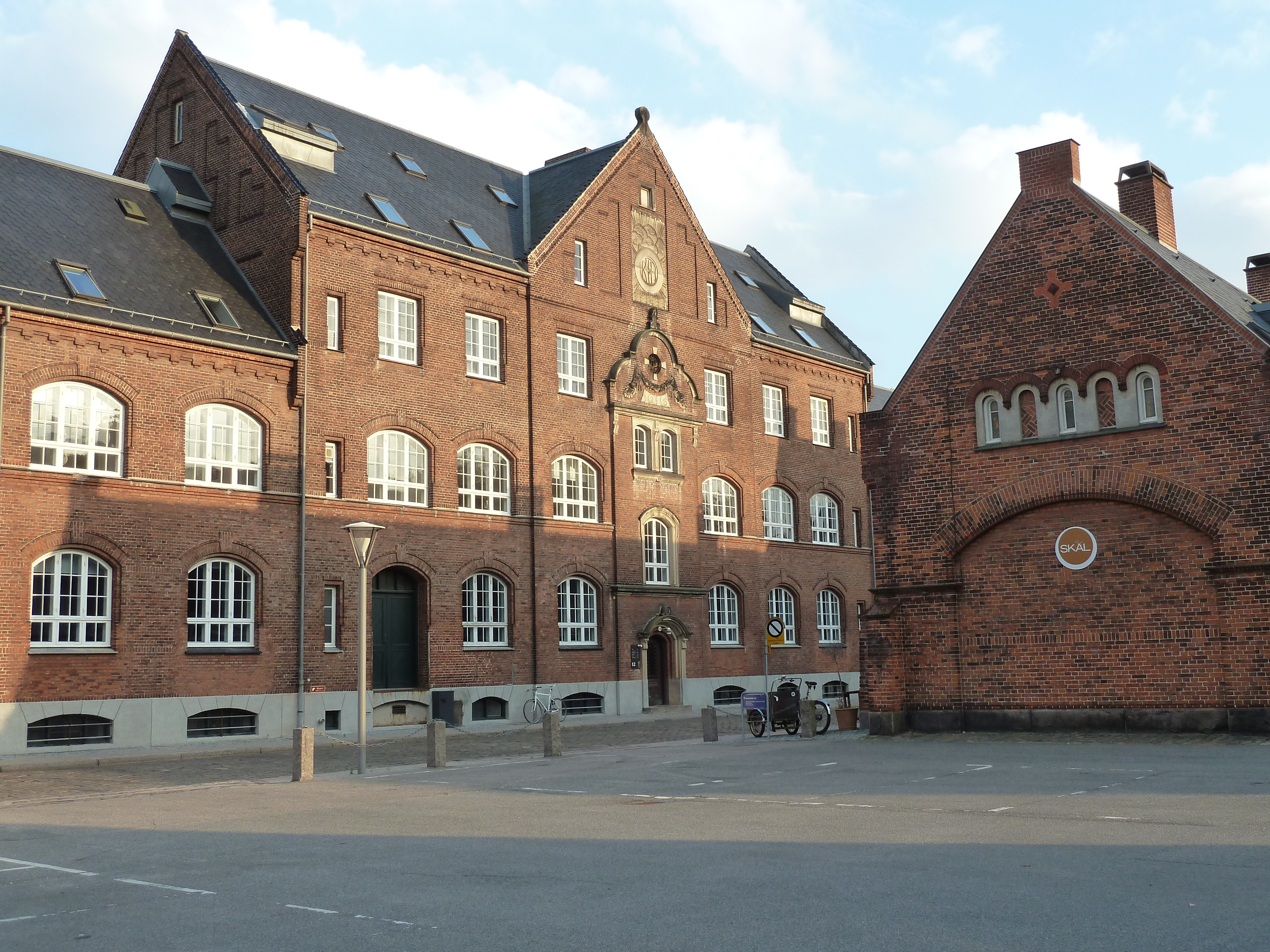 The small side street Forbindelsesvej off Indiakaj in Copenhagen, Denmark